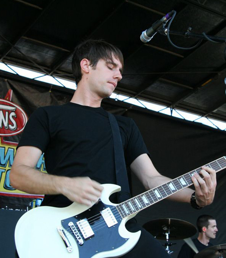 Anti-Flag guitarist and backup vocalist live in concert.